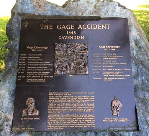 Roadside plaque in Cavendish, Vermont (Main Street between Mill Street and High Street) memorializing Phineas Gage, his famous accident, and his physician John Martyn Harlow; dedicated September 13, 1998 (the 150th anniversary of Gage's accident). See Malcolm Macmillan, An Odd Kind of Fame: Stories of Phineas Gage, p. 378.